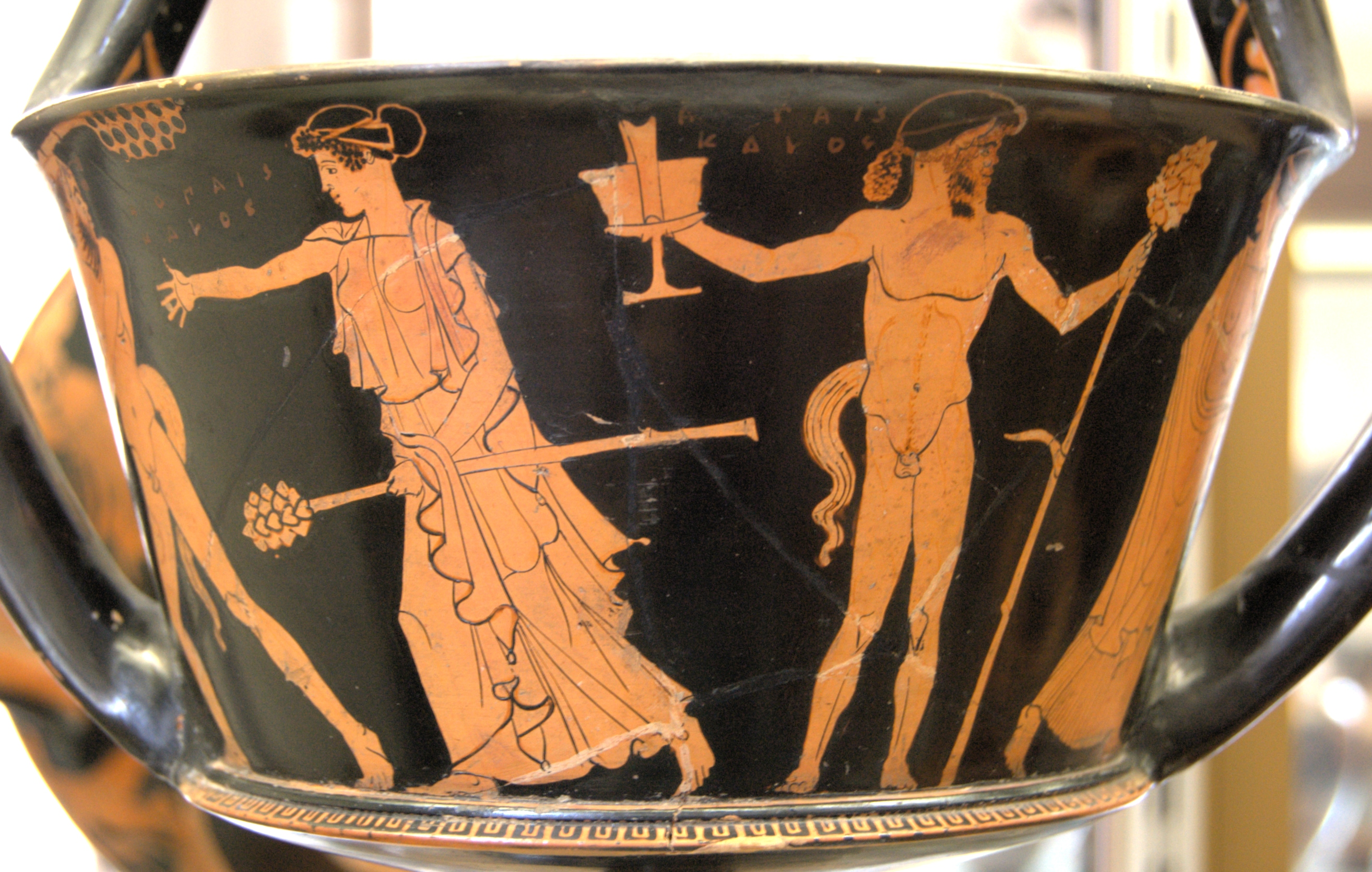 Sileni and maenads, Attic red-figured kantharos, ca. 460 BC.